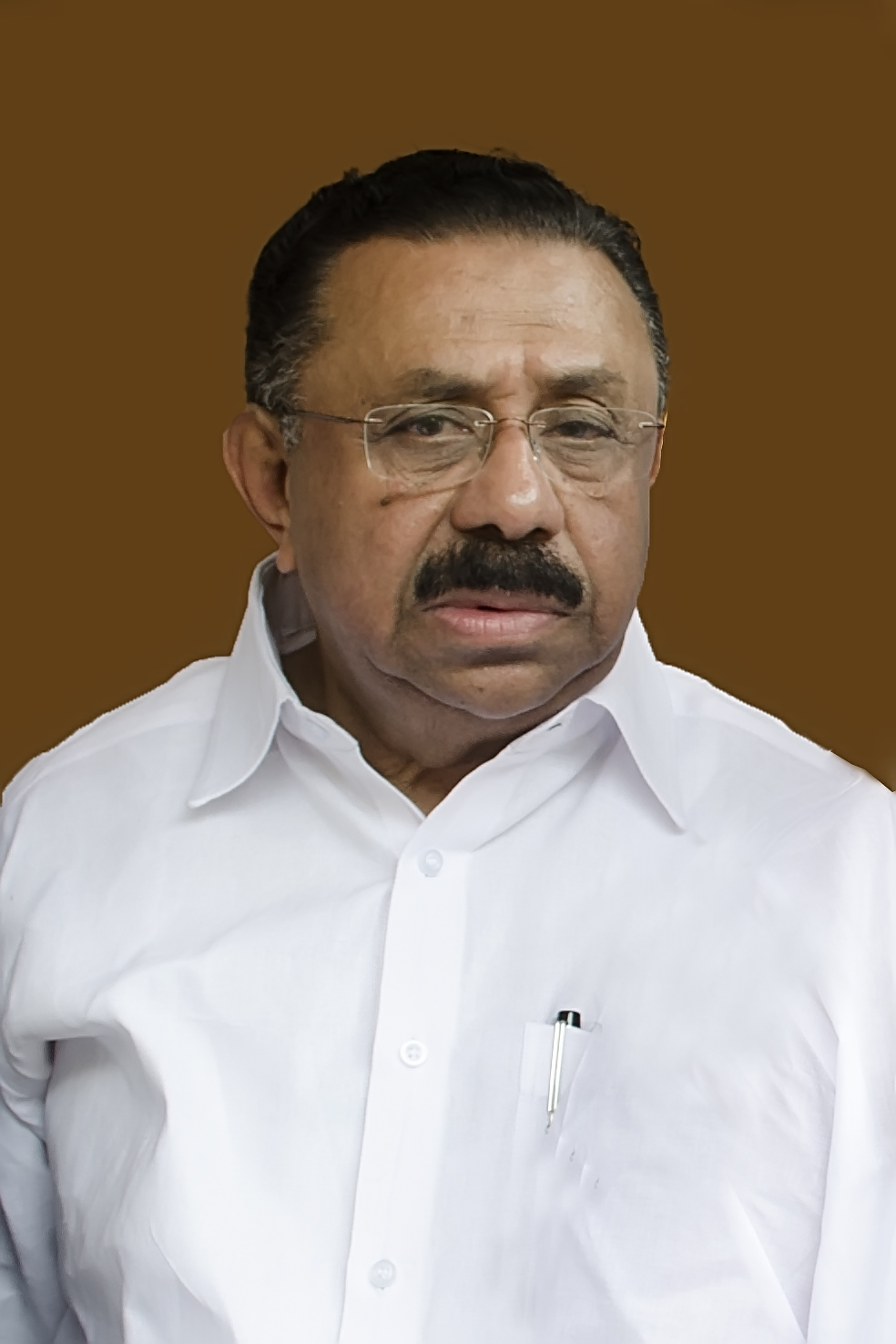 M. M. Hassan